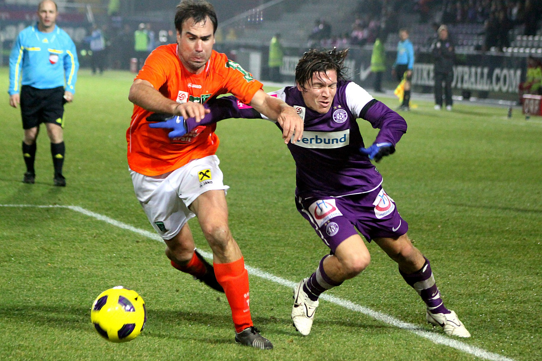 2010–11 Austrian Cup - FK Austria Wien vs FC Wacker Innsbruck